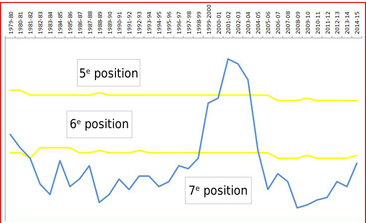 Graph showing the league postitions of Margate F.C. since 1979. Created by myself using data from The Football Club History Database